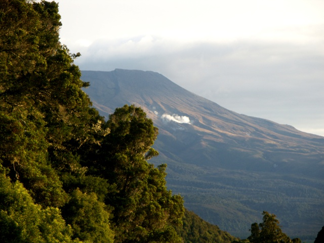 photo by Paul Moss, uploaded by the Photographer / Author. Paul Moss Photographer